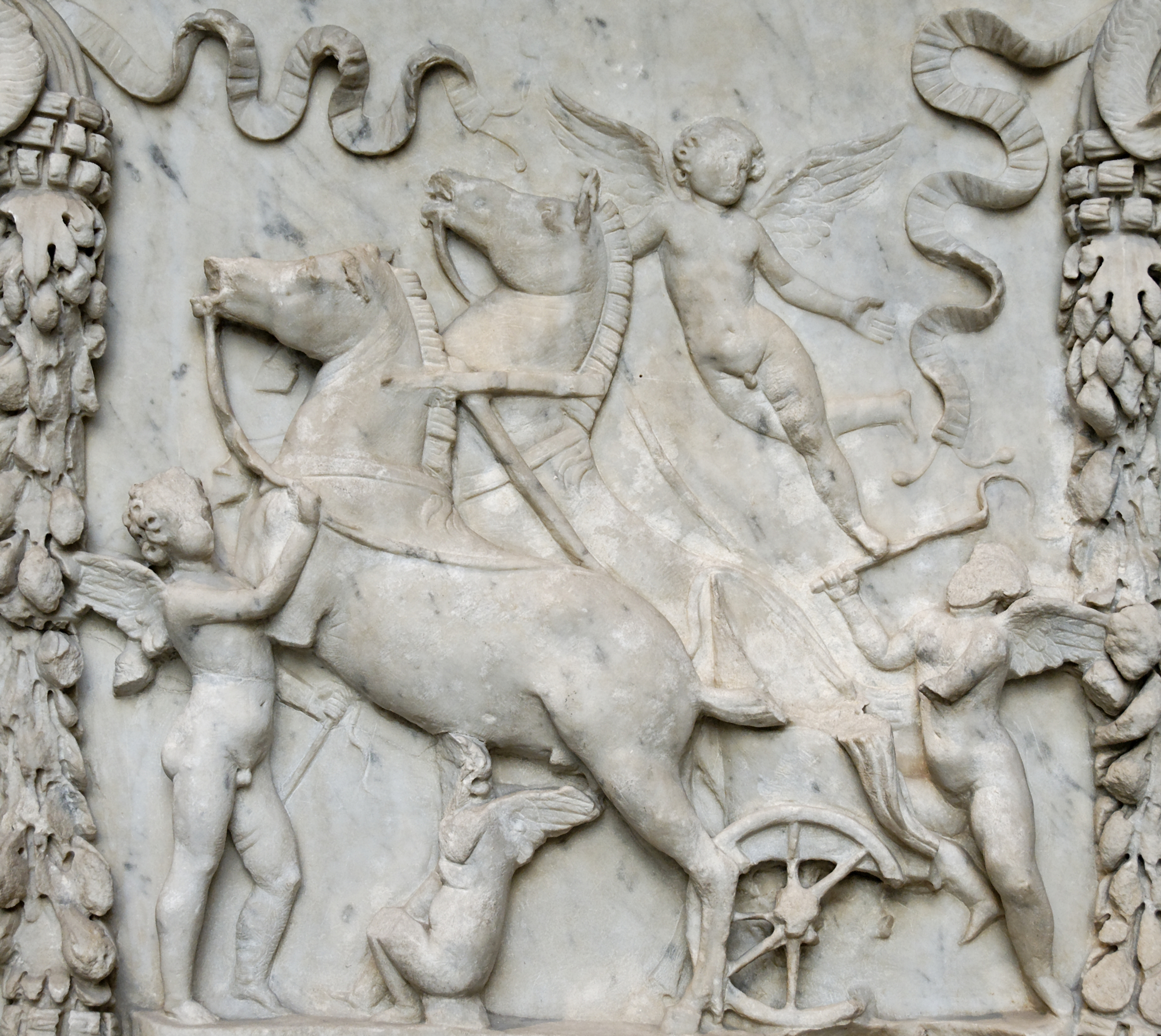 Erotes playing with the weapons and chariot of Mars, panel from an altar dedicated to Mars and Venus. Marble, Roman artwork of the end of the reign of Trajan (98-117 CE), later re-used under the Hadrianic era (117-132 CE) as a base for a statue of Silvan. From the portico of the Piazzale dei Corporazioni in Ostia Antica.